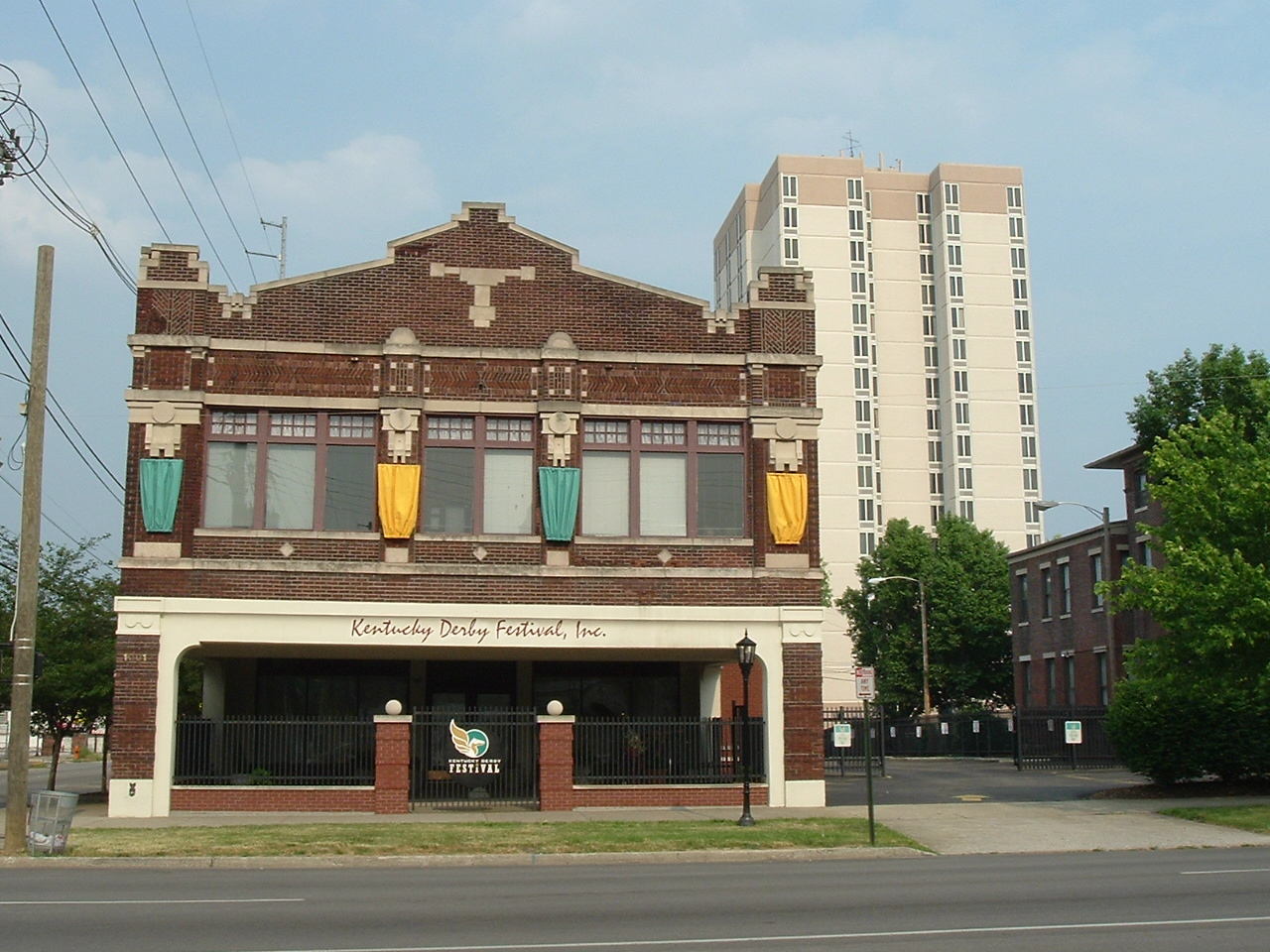 Kentucky Derby festival office. Baptist Tower is pictured in the background. Taken by uploader Censusdata.